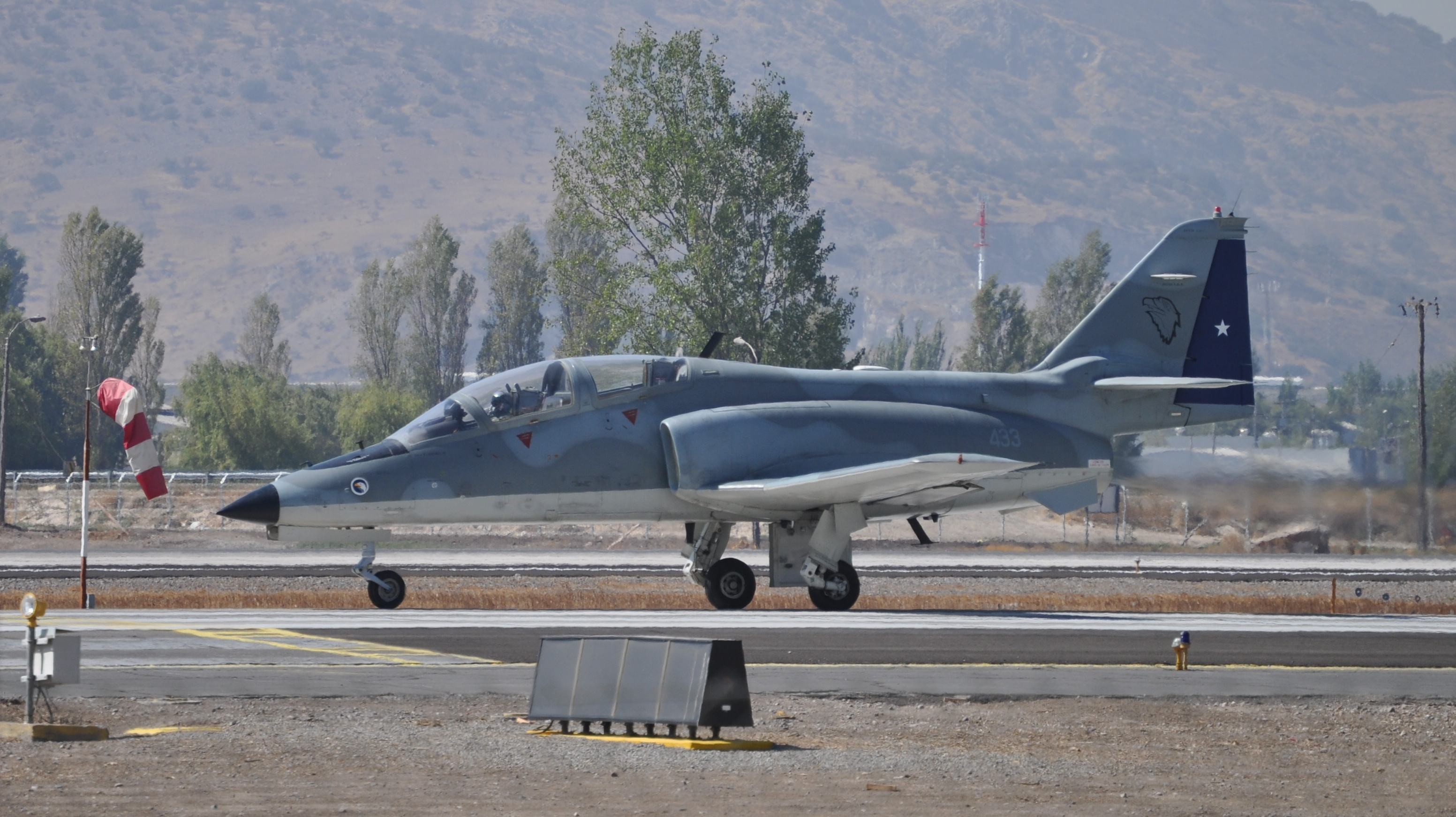 Pudahuel AFB, Santiago de Chile, March 2010